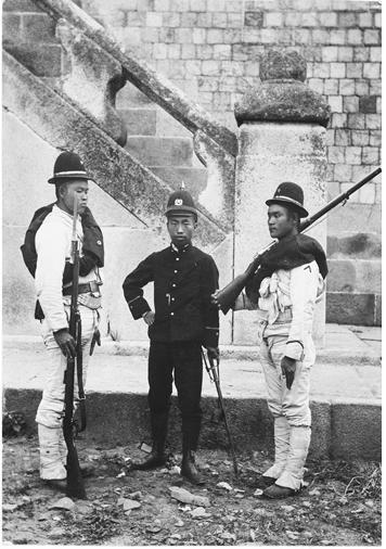 Imperial Korean Army Soldiers